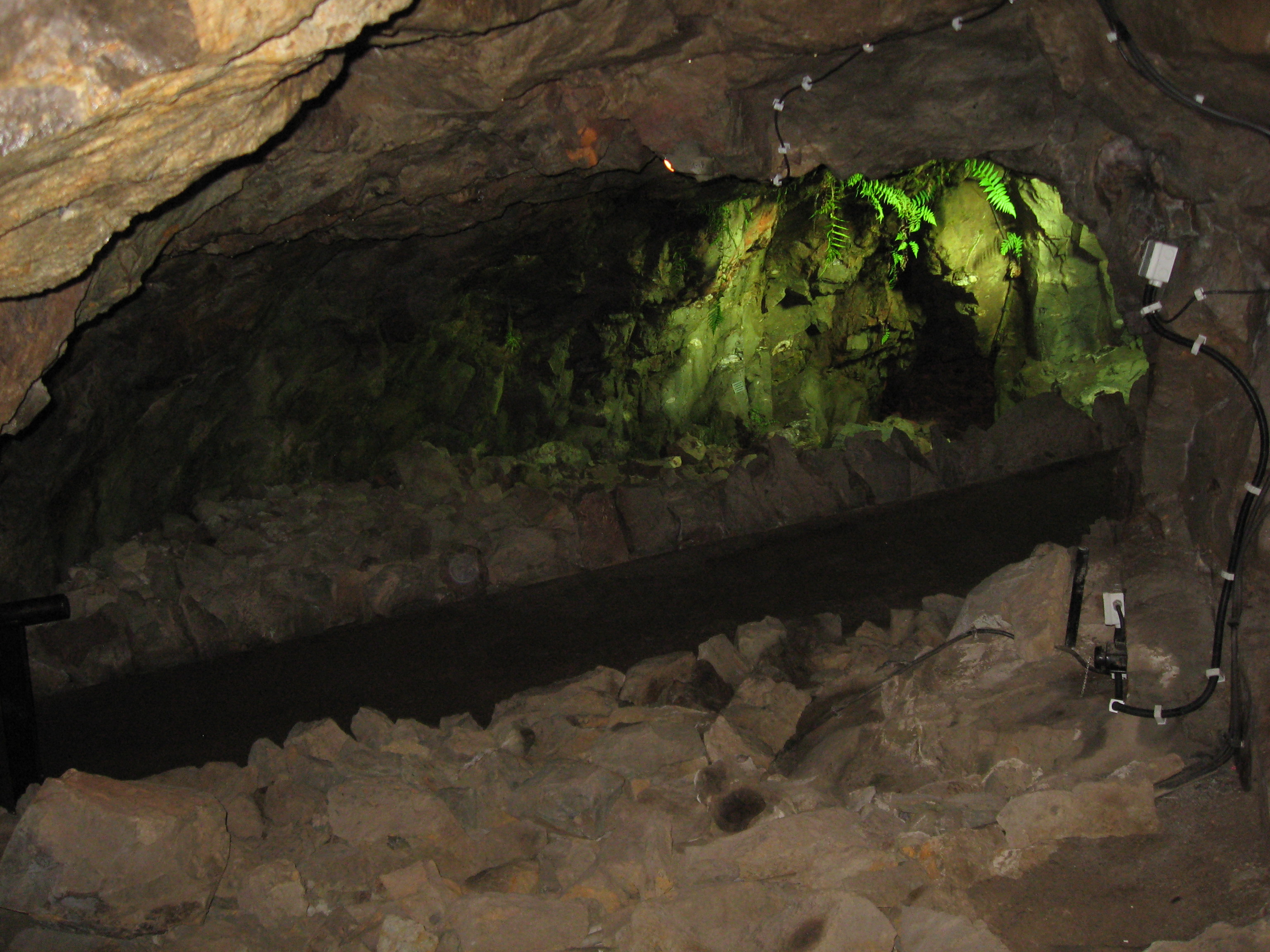 gemstone mine in Idar-Oberstein in 2018